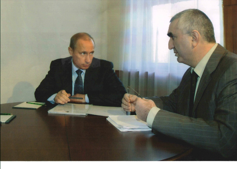 С президентом РФ- В.В. Путины